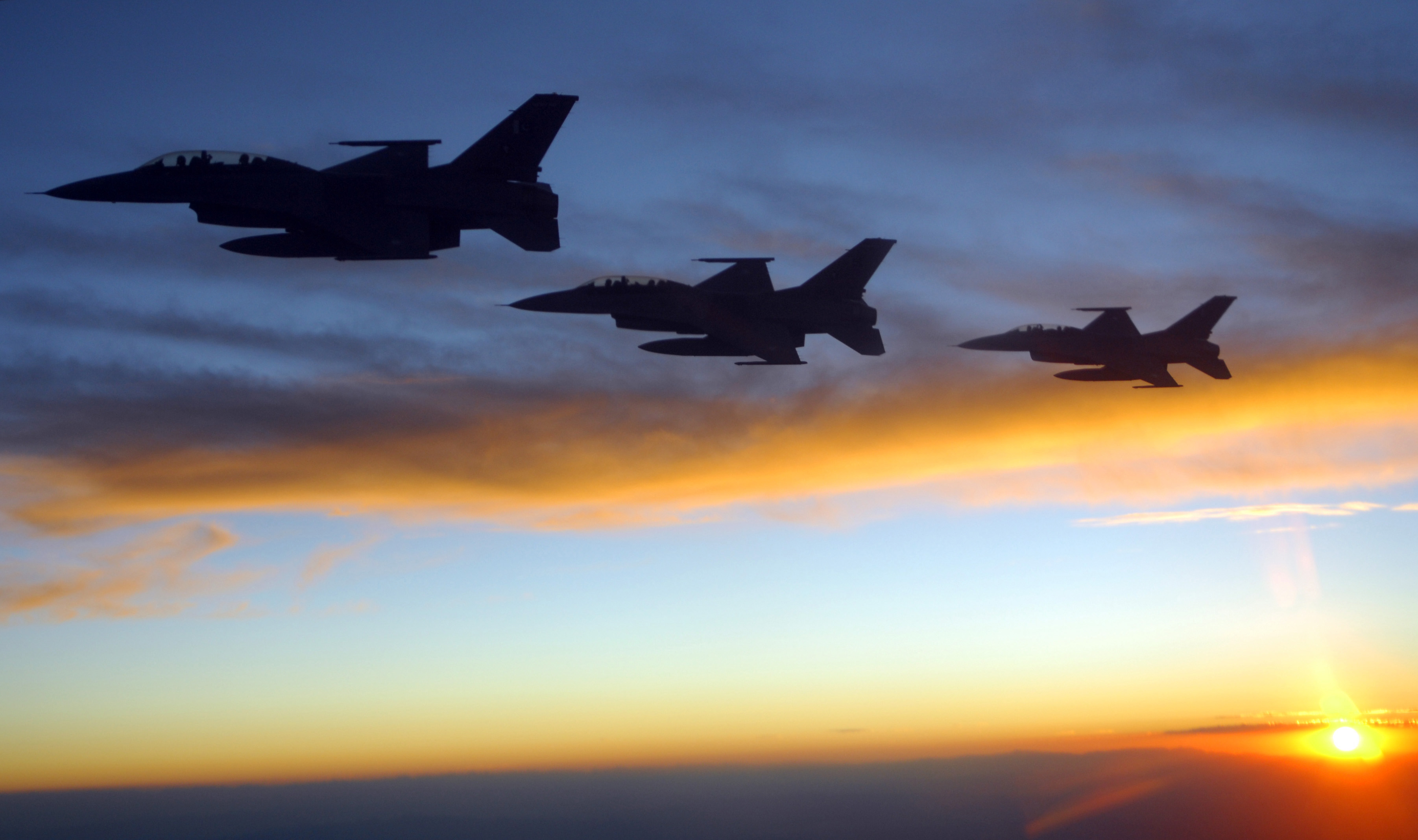 Pakistan Air Force F-16B fighters take part in Red Flag 2010.